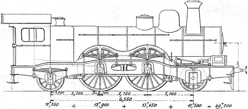 Etat Belge 121